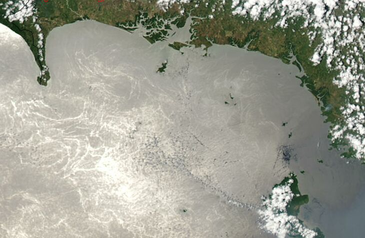 Satellite image of Panama in March 2003.